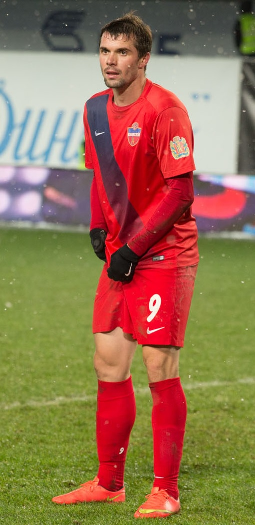 Andrei Kozlov with FC Yenisey Krasnoyarsk in a game against FC Dynamo Moscow.